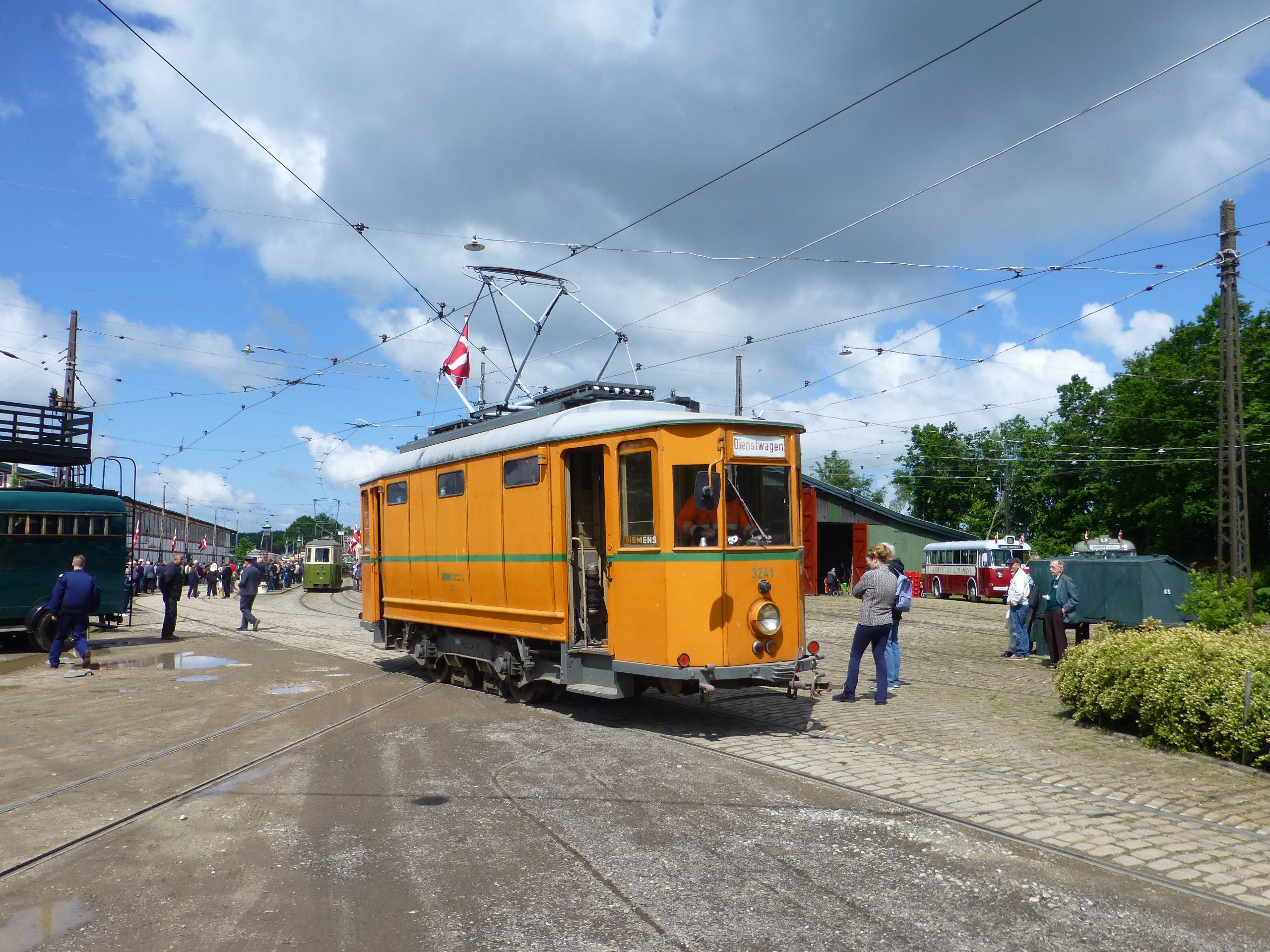 Tram parade at Sporvejsmuseet Skjoldenæsholm due to celebrating of 50 years of the Danish tramway society, Sporvejshistorisk Selskab. Service tram from Wuppertal, WSW 3241 from 1925.